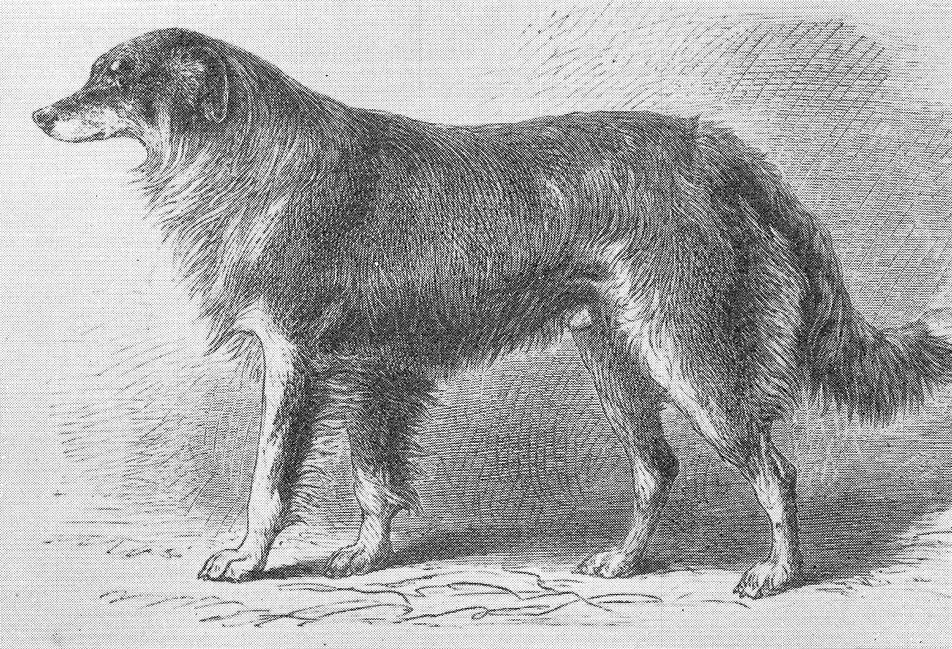 Carlyle, one of the founders of the Collie.